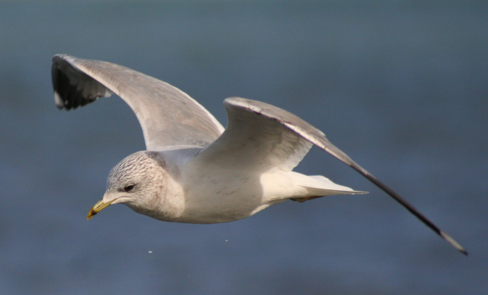 Common Gull Larus canus in flight, Loch Fleet Nature Reserve, Scotland.